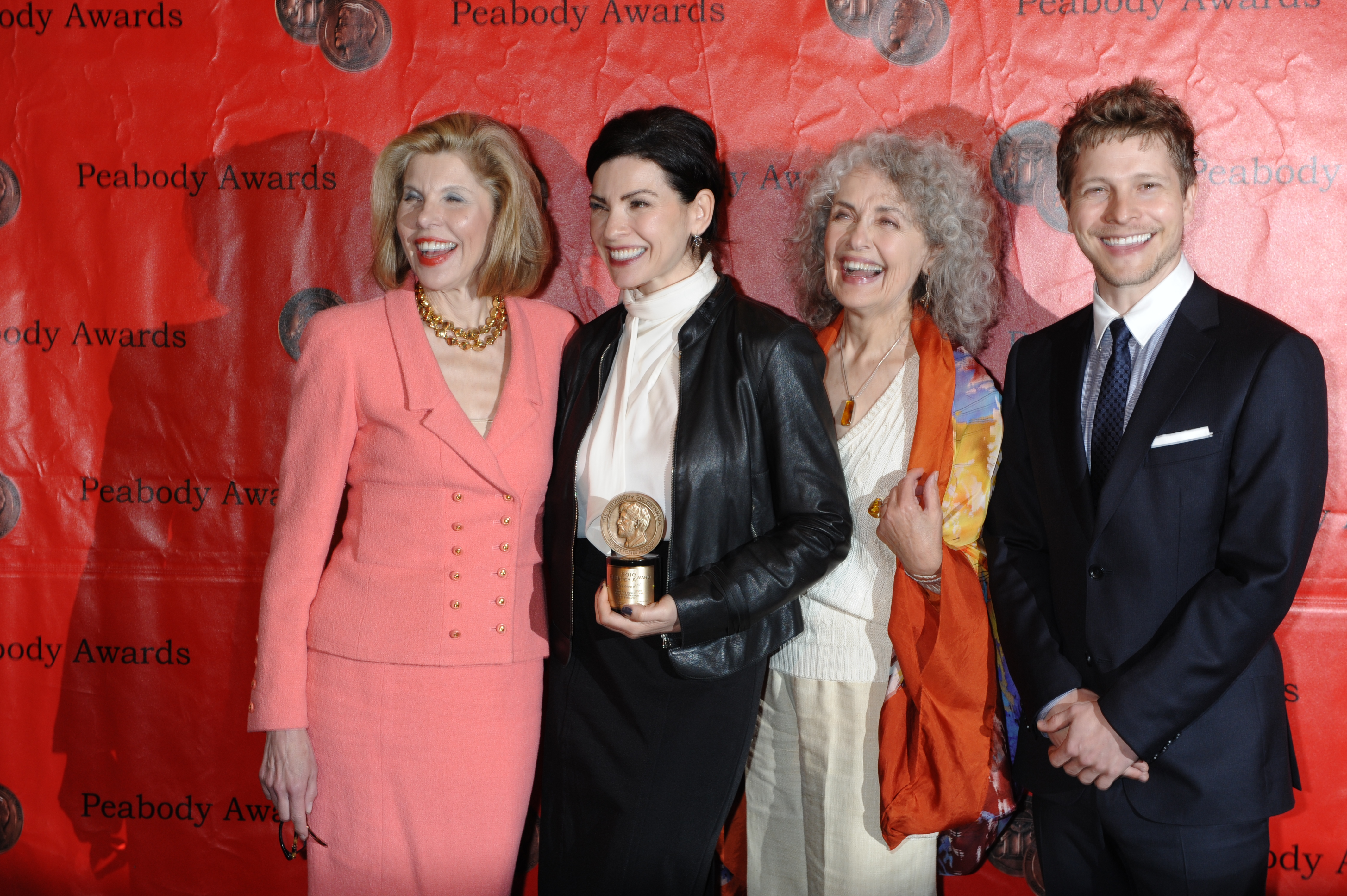 PHOTO CREDIT: ANDERS KRUSBERG / PEABODY AWARDS Christine Baranski, Julianna Margulies, Mary Beth Peil, Matt Czuchry 70th Annual Peabody Awards Luncheon Waldorf=Astoria Hotel May 23, 2011